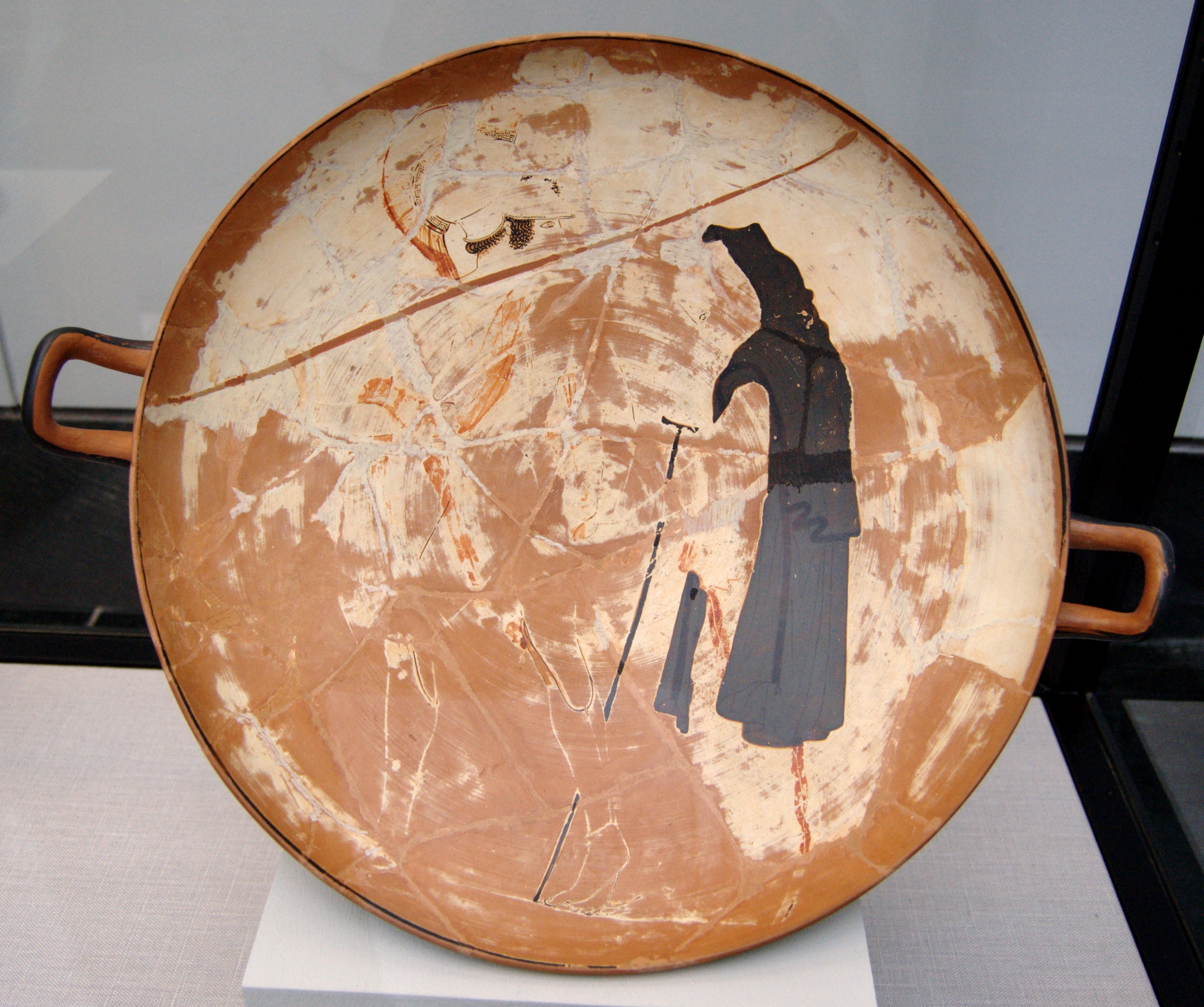 Demophon (?) freeing his grand-mother Aethra. Interior of an Attic white-ground kylix, 470–460 BC. From Vulci?